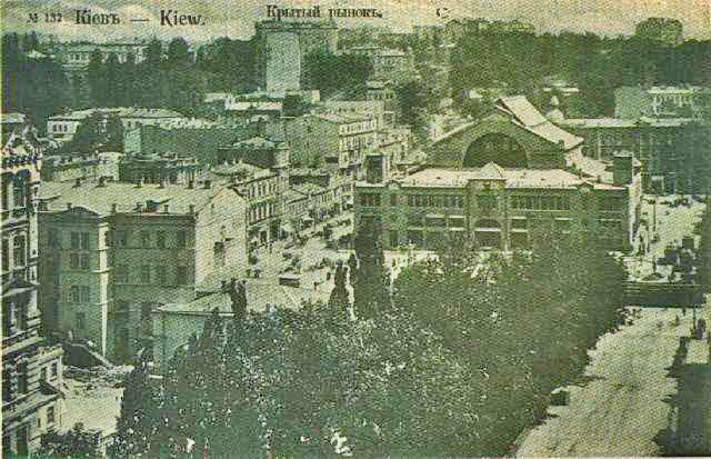 Бессарабский рынок антикварная открытка